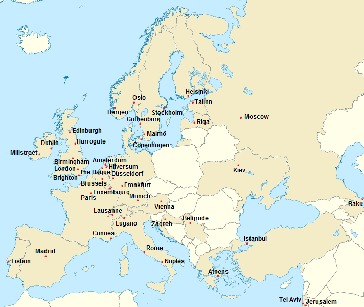 A map showing the cities within their countries, which Eurovision Song Contest had been held.